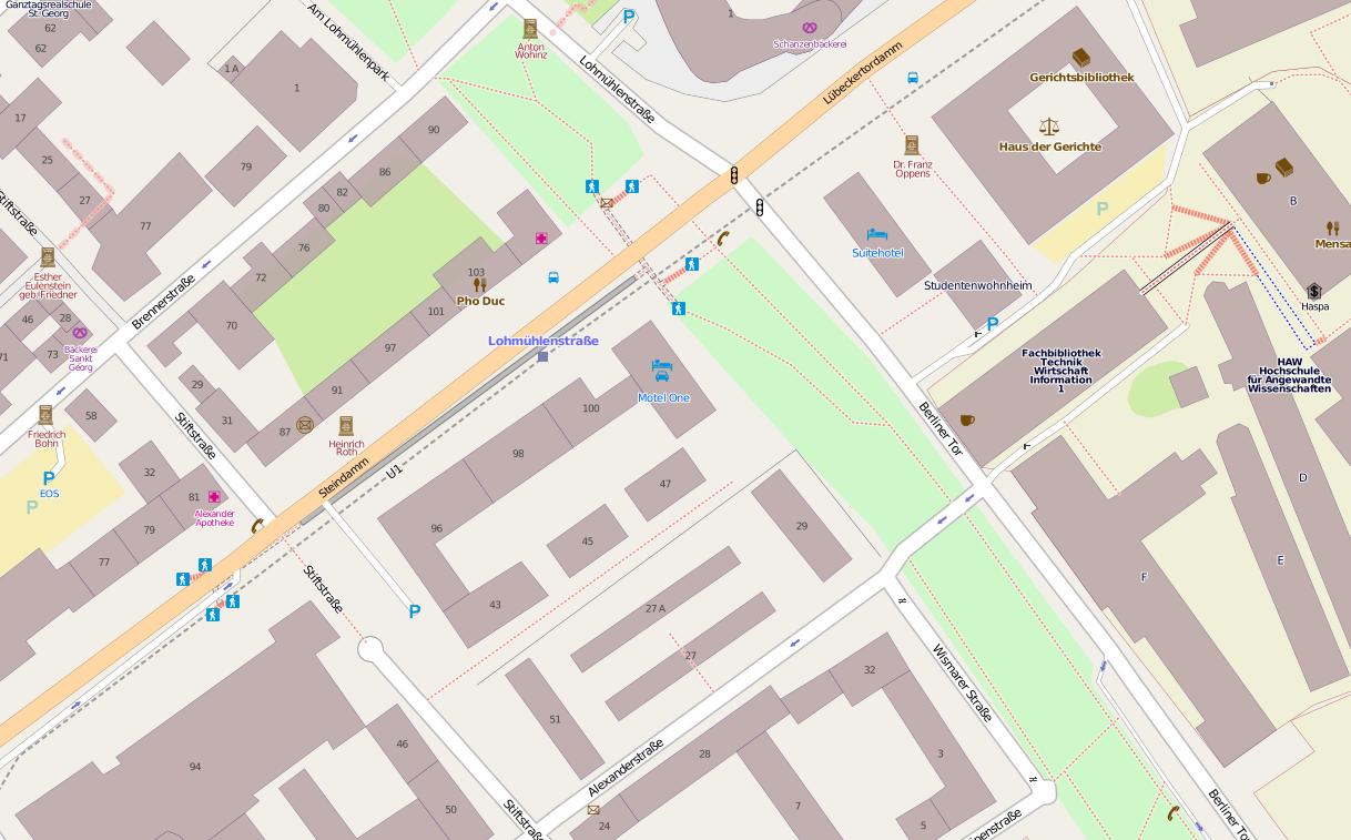 This map of Steindamm in Hamburg was created from OpenStreetMap project data, collected by the community. This map may be incomplete, and may contain errors. Don't rely solely on it for navigation.